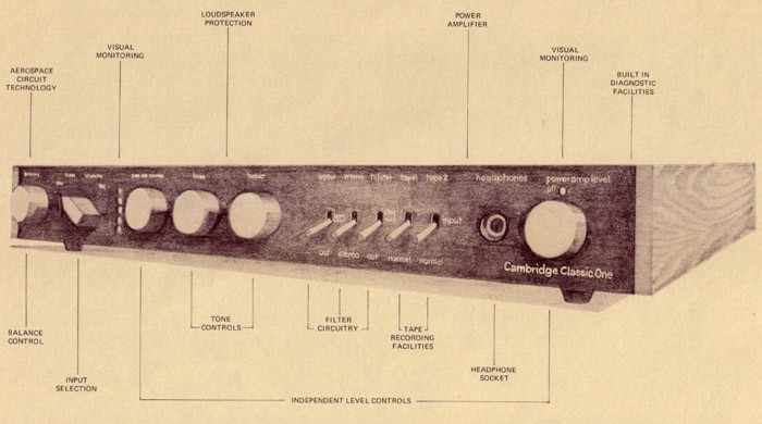 Cambridge Audio Classic One